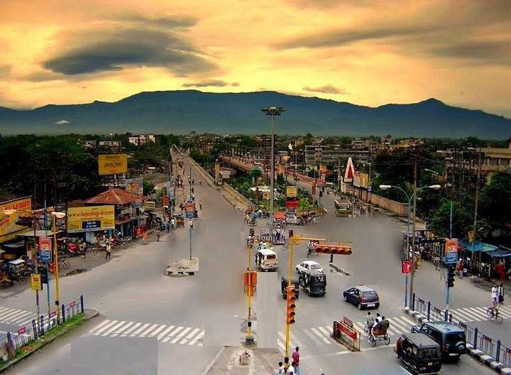 Siliguri view from AirViewMore